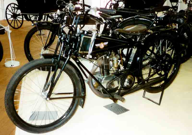 EBE E Sport 1938